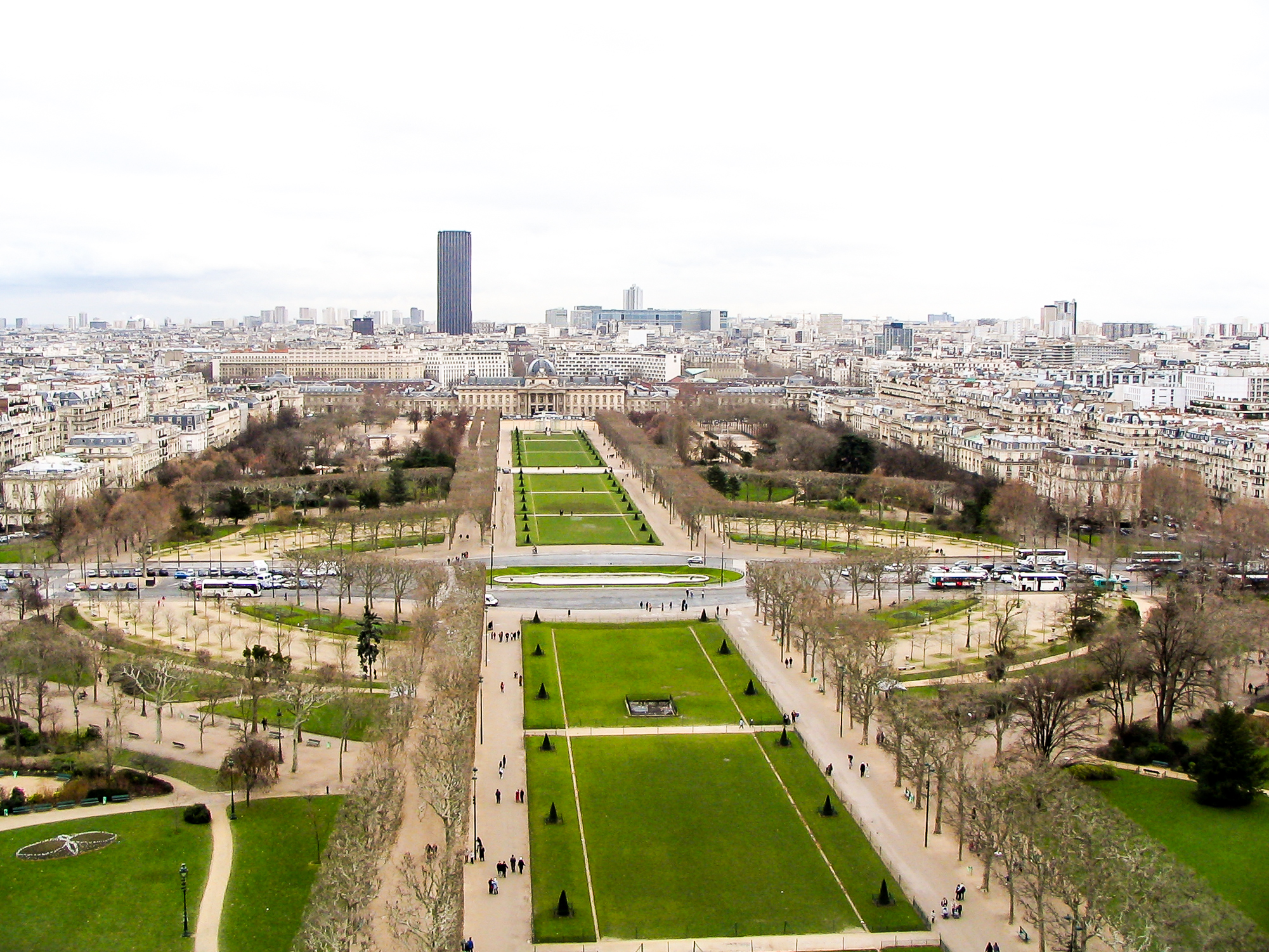 View of Champ-de-Mars, from the Eiffel Tower. In the background: Tour Montparnasse.